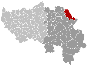 Map, municipality belgium Raeren